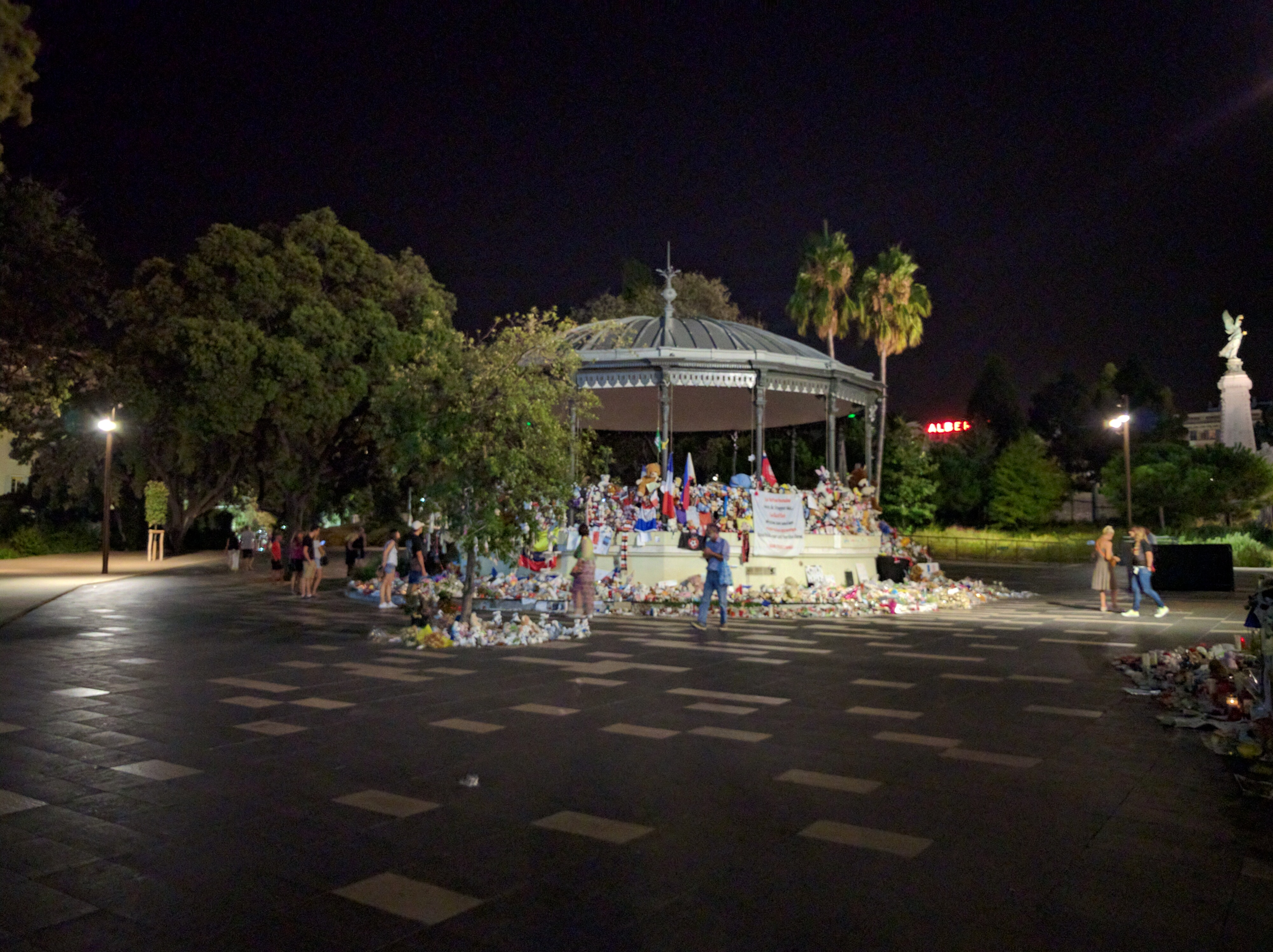 Memorial of July 14th, 2016 in Nice.